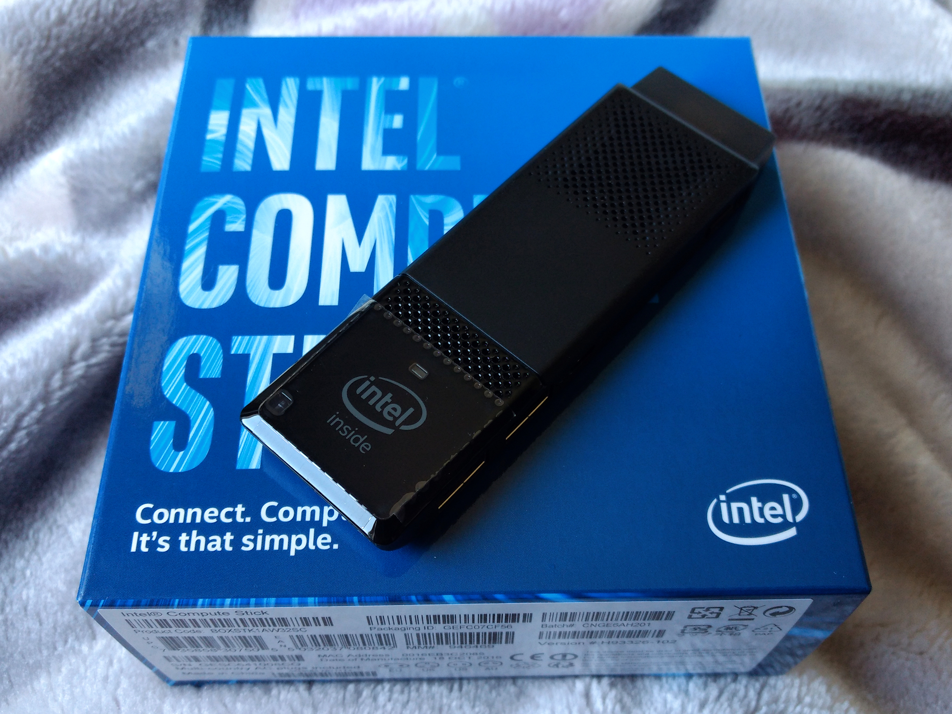 In 1993, when I was 7yo and used my family's Am386-based PC, this Intel Compute Stick is exactly what I imagined how a PC would be in the future... I bought this Intel Compute Stick (STK1AW32SC) because I needed something to replace my old WDTV HD media player, and for 110 USD, buy this Compute Stick was a no-brainer. Of course this Stick is not intended to be used as a regular PC, but I had to use it as my main PC for a month and its quad-core Atom CPU managed to do everything I needed, including edit photos on PaintShop Pro and re-encode videos on Handbrake. Now I have my main PC back and the Stick is behind the TV again, and I became a fan of this Stick. For a thing that is smaller than a remote control and costs 110 USD including the Windows 10 license, I can't imagine any PC better than this when versatility comes to mind. Kudos to Intel, to bring such a competent product to the market.